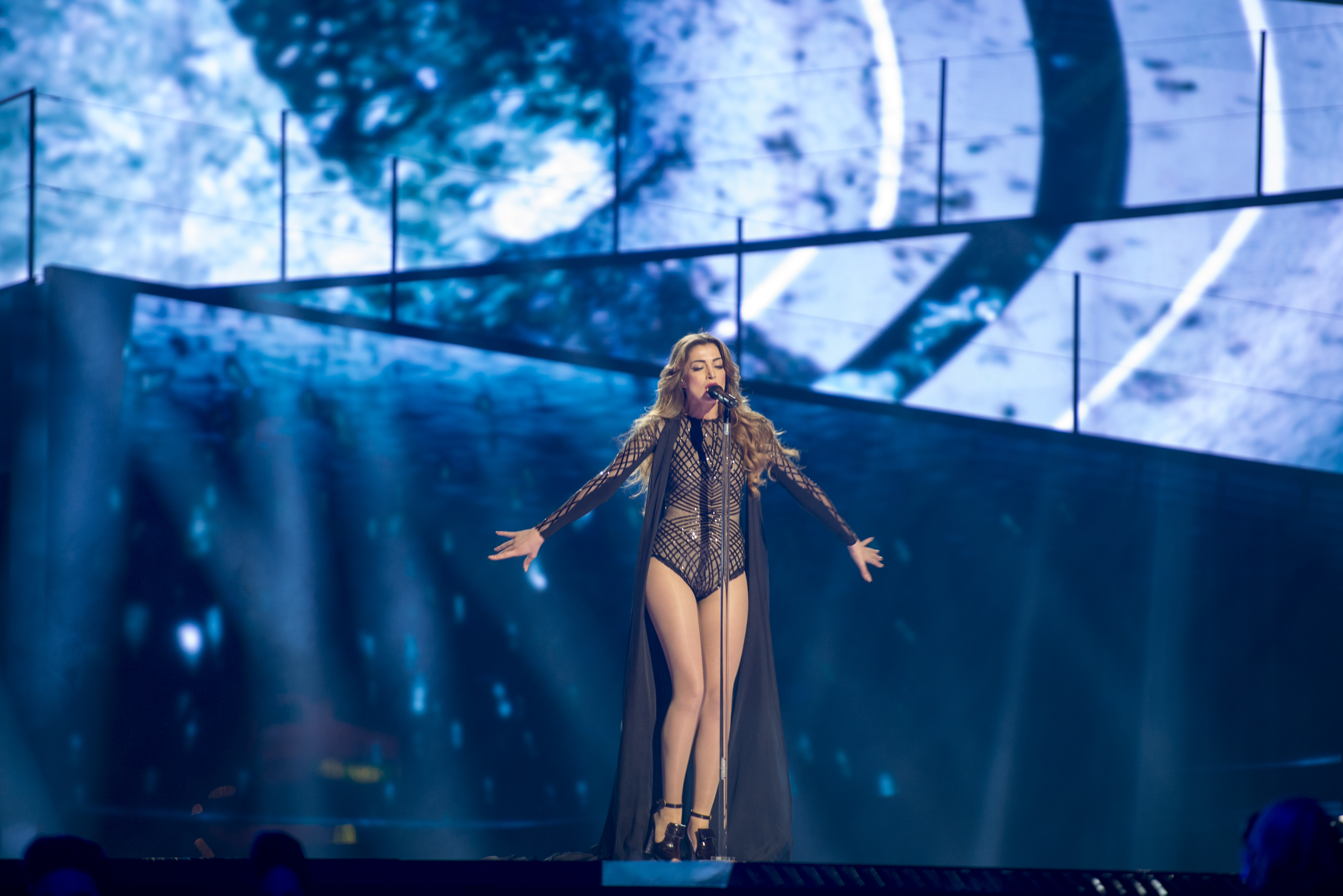 Iveta Mukuchyan representing Armenia with the song "LoveWave" during a rehearsal before the first semi final of the Eurovision Song Contest 2016 in Stockholm. (Help translate this text)